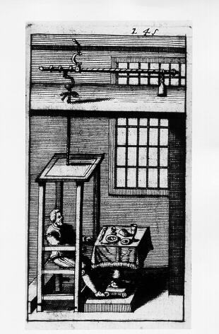 Santorio Santorio weighed himself before and after a meal, conducting the first controlled test of metabolism, and published the results in Ars de statica medecina, 1614. 17th century book illustration